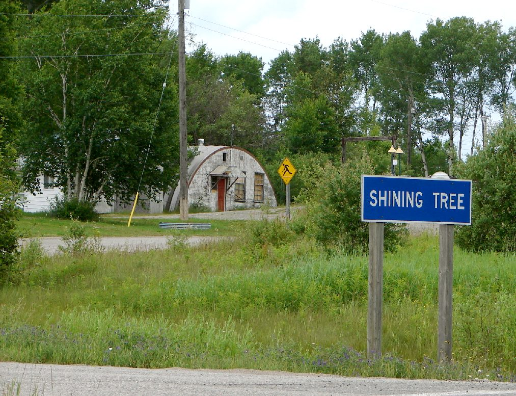 Shining Tree, Ontario, Canada